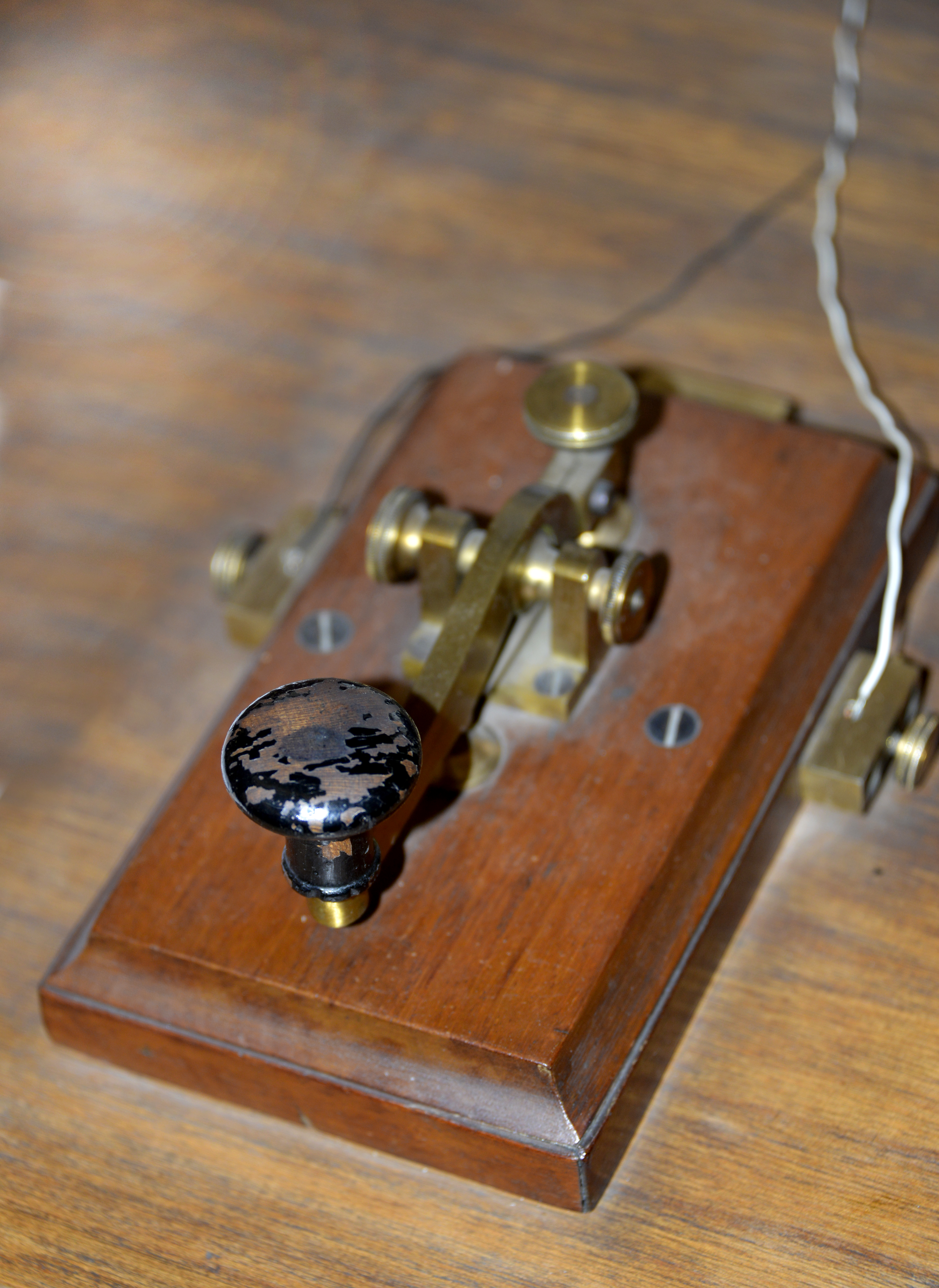 Exhibits of old telegraph at the PTT Museum in Belgrade